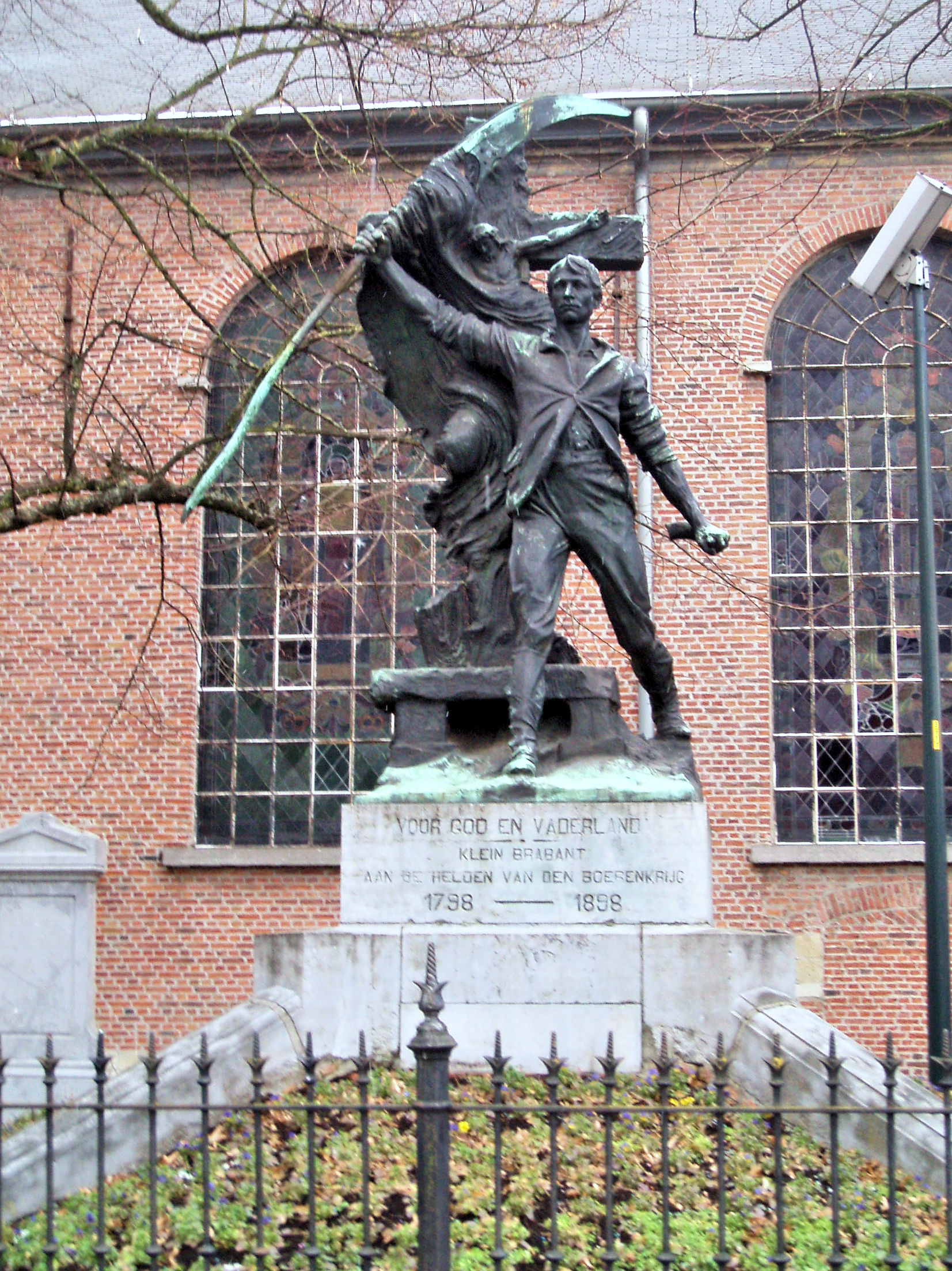 Bornem monument peasants' war